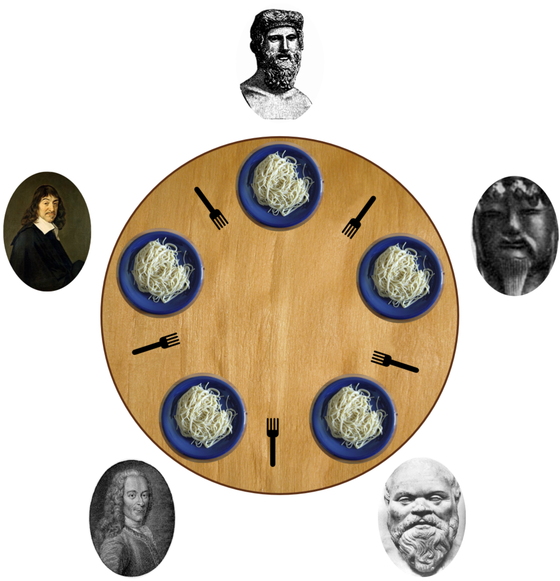 An illustration of the dining philosophers problem. Philosophers clockwise from top - Plato, Konfuzius, Socrates, Voltaire and Descartes.